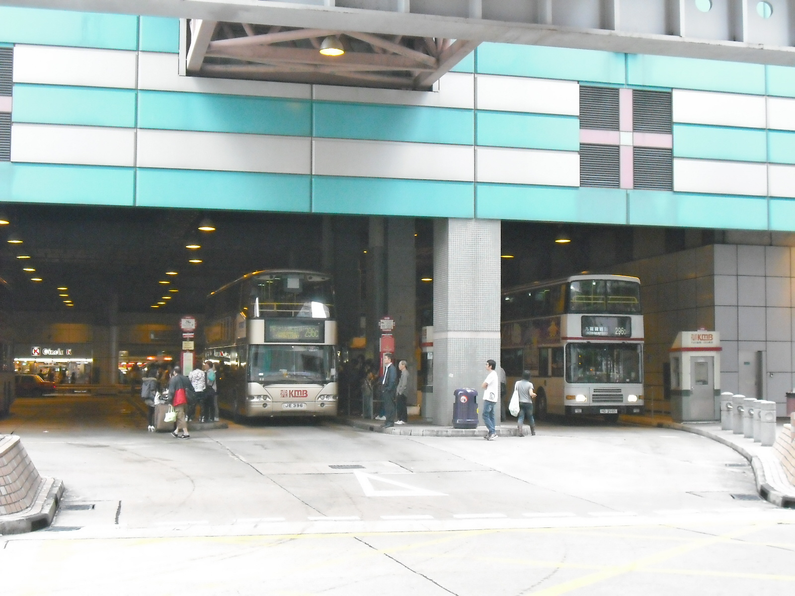 Sheung Tak Bus Terminhus